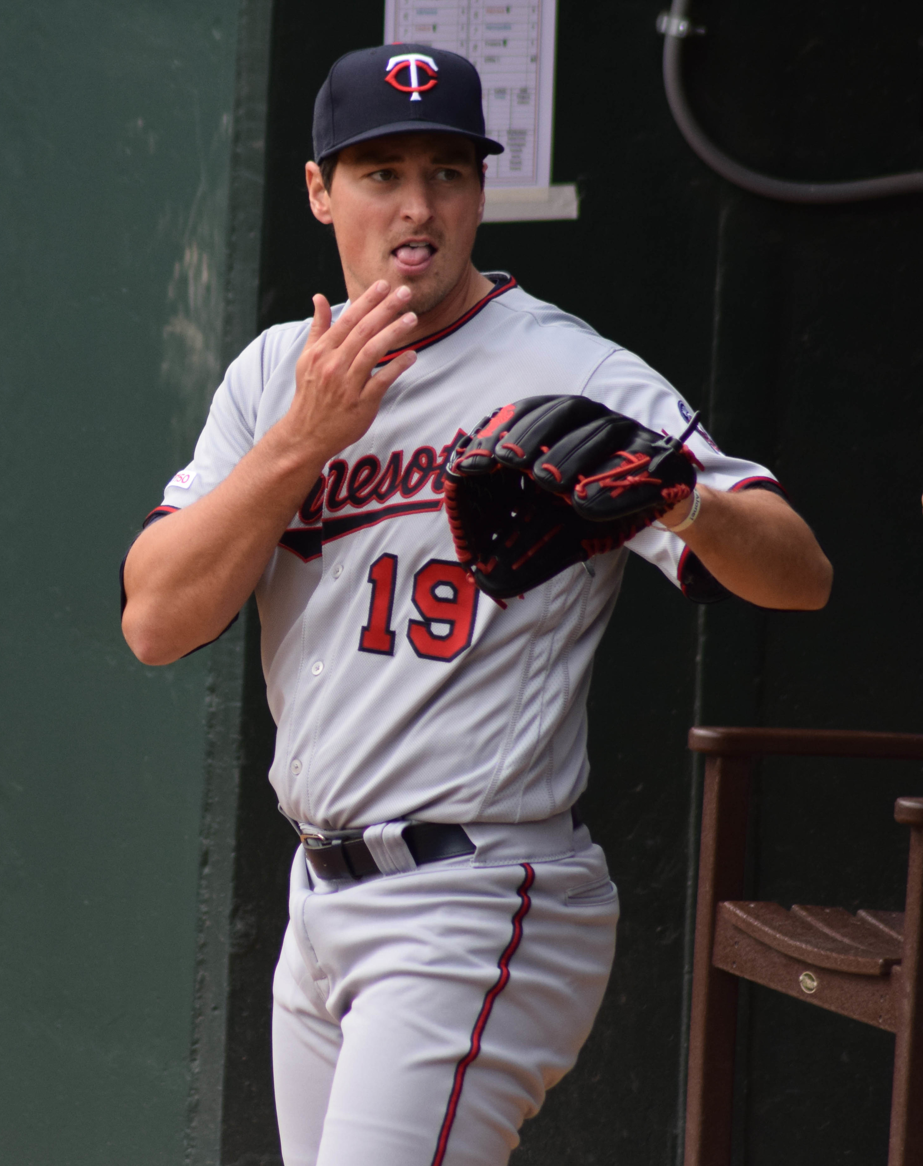 Ryne Harper of the Minnesota Twins warms up during the 2019 game at Citizens Bank Park in Philadelphia